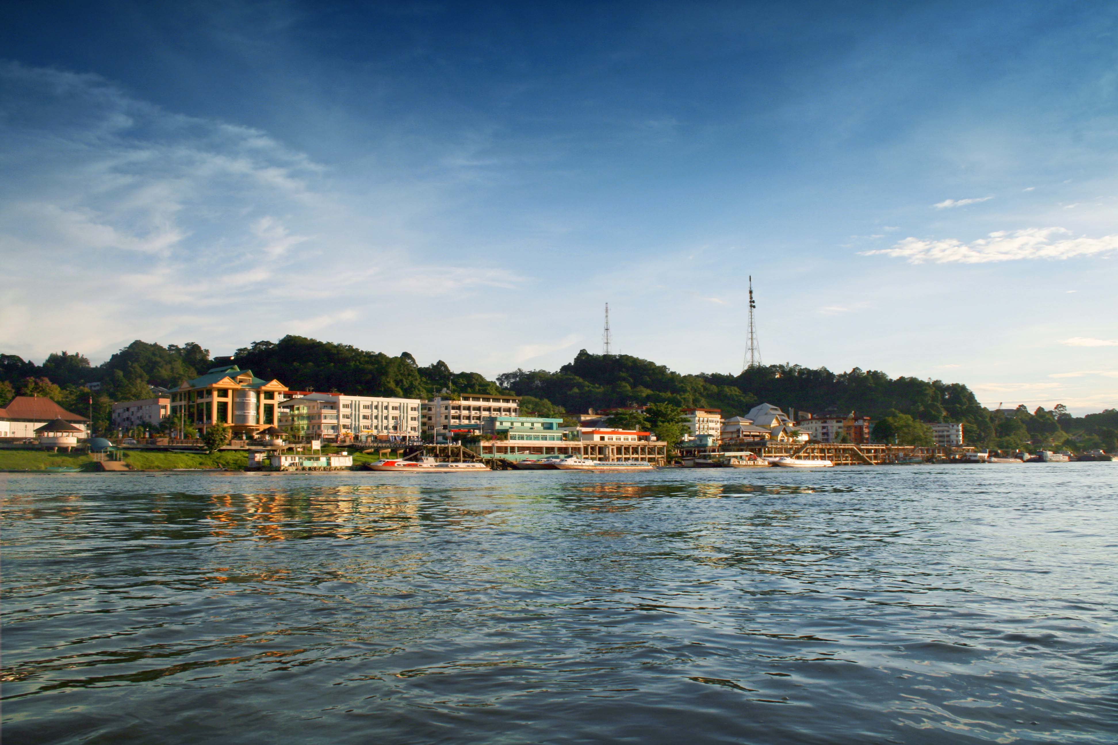 The skyline of Kapit as photographed from the Rajang river